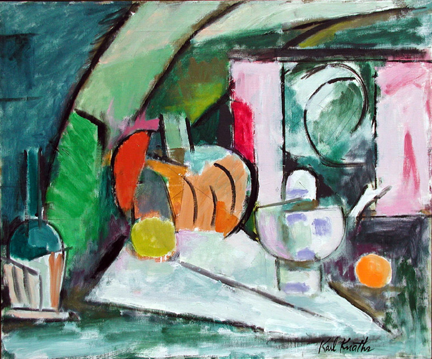 Painting of 1964 entitled "Pumpkin" by Karl Knaths; 30" x 36"; oil on canvas; from the collection of the Provincetown Art Association and Museum; gift of Mr. and Mrs. David Orr, in memory of Louise Ault.